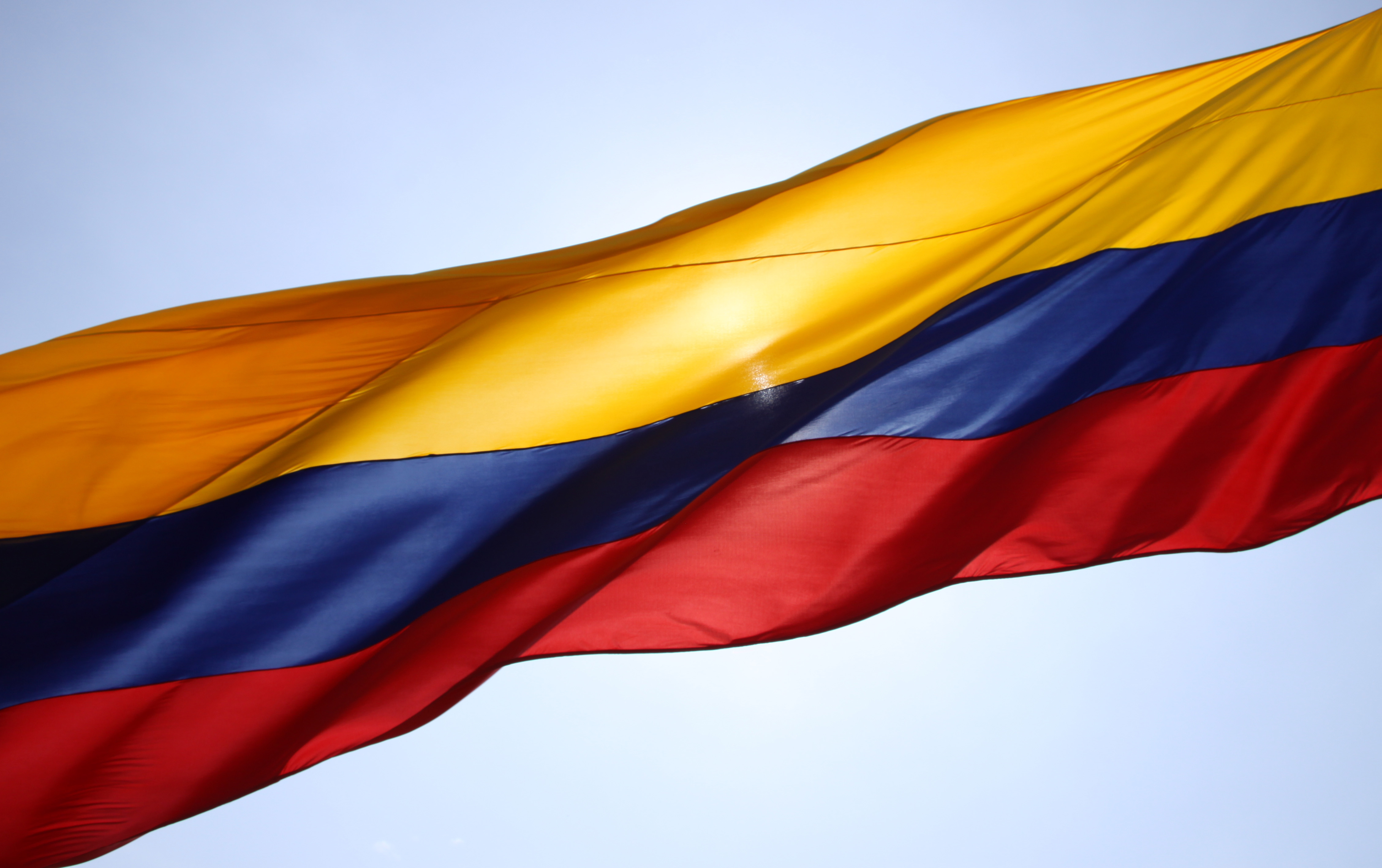 Please, have this description accessible to all by translating it in different languages.